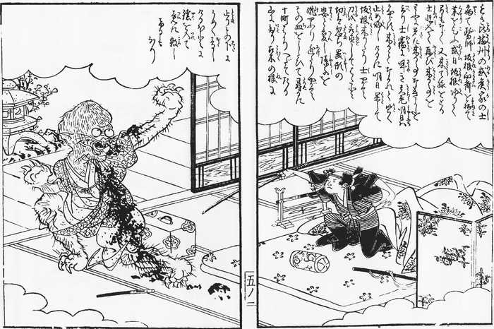 Ijū (異獣) from Ehon-Sayo-Shigure (絵本小夜時雨)